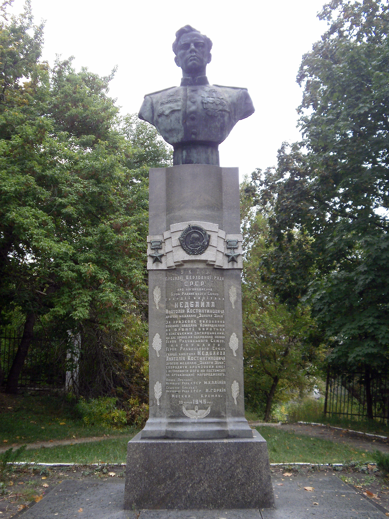 бюст А. К. Недбайло